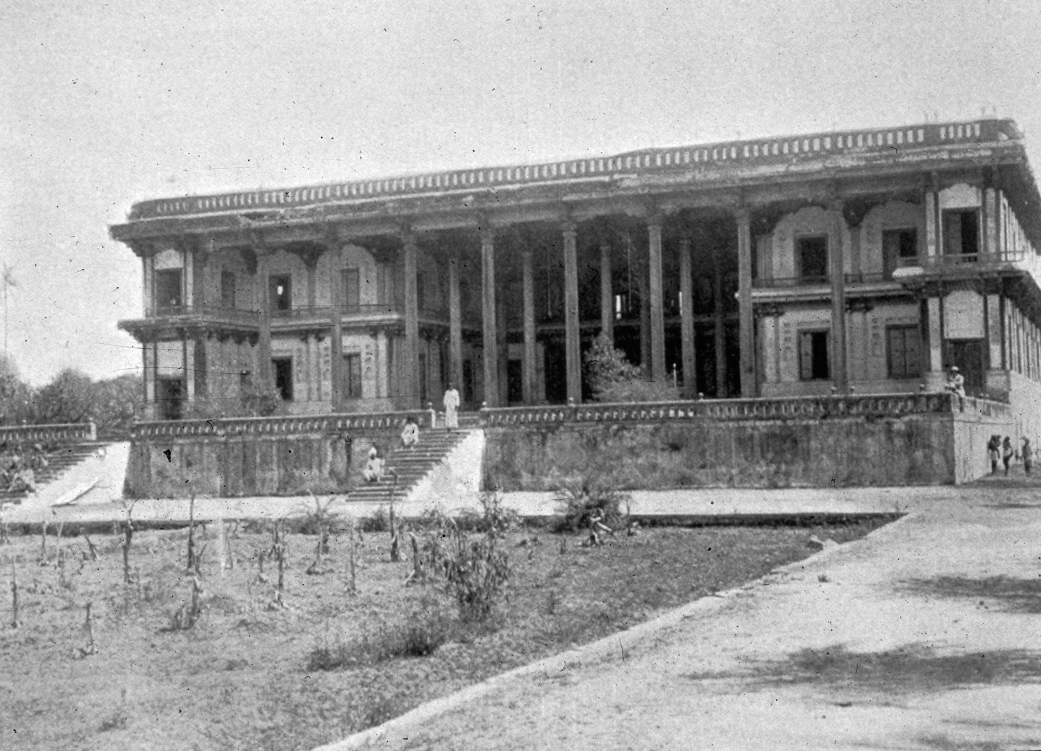 ChanduLal Baradari , Hyderabad India. This palace was located in Shah Ali Banda. It was named after its owner Diwan Chandulal